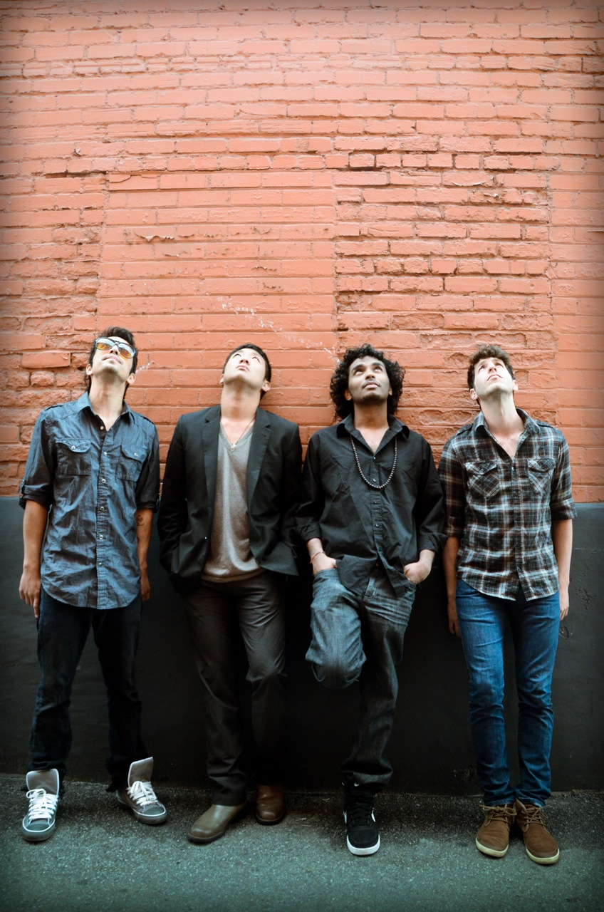 Mind the Gap looking up in downtown Los Angeles, CA